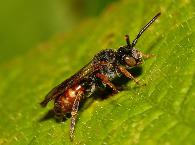 Nomada similis, male. Location: The Netherlands - Renkum - Telefoonweg